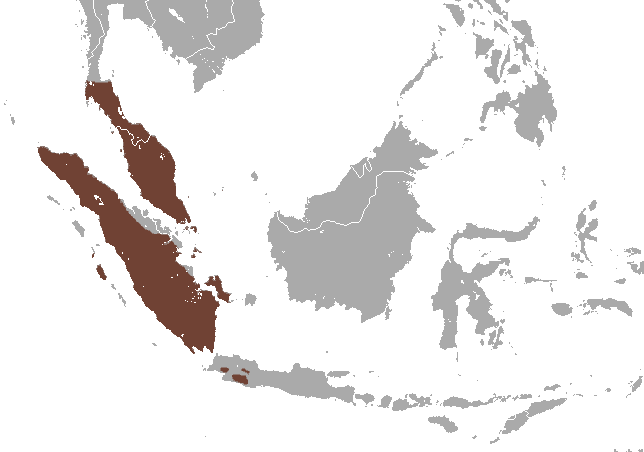 Common Treeshrew (Tupaia glis) range